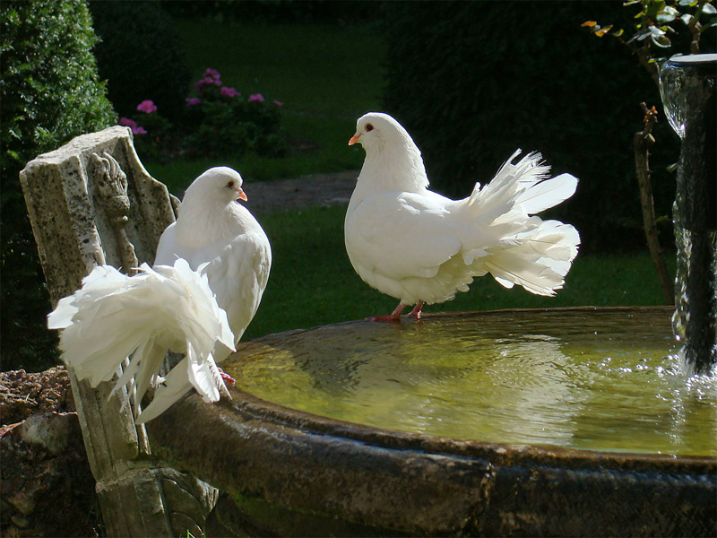 Abbey of Monte Cassino, Lazio, Italy.